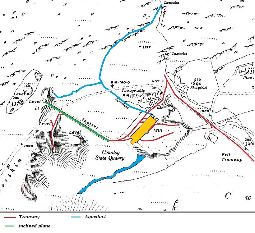 Map of Conglog Slate Quarry, Tanygrisiau, Wales, published in 1919, shortly after the quarry closed